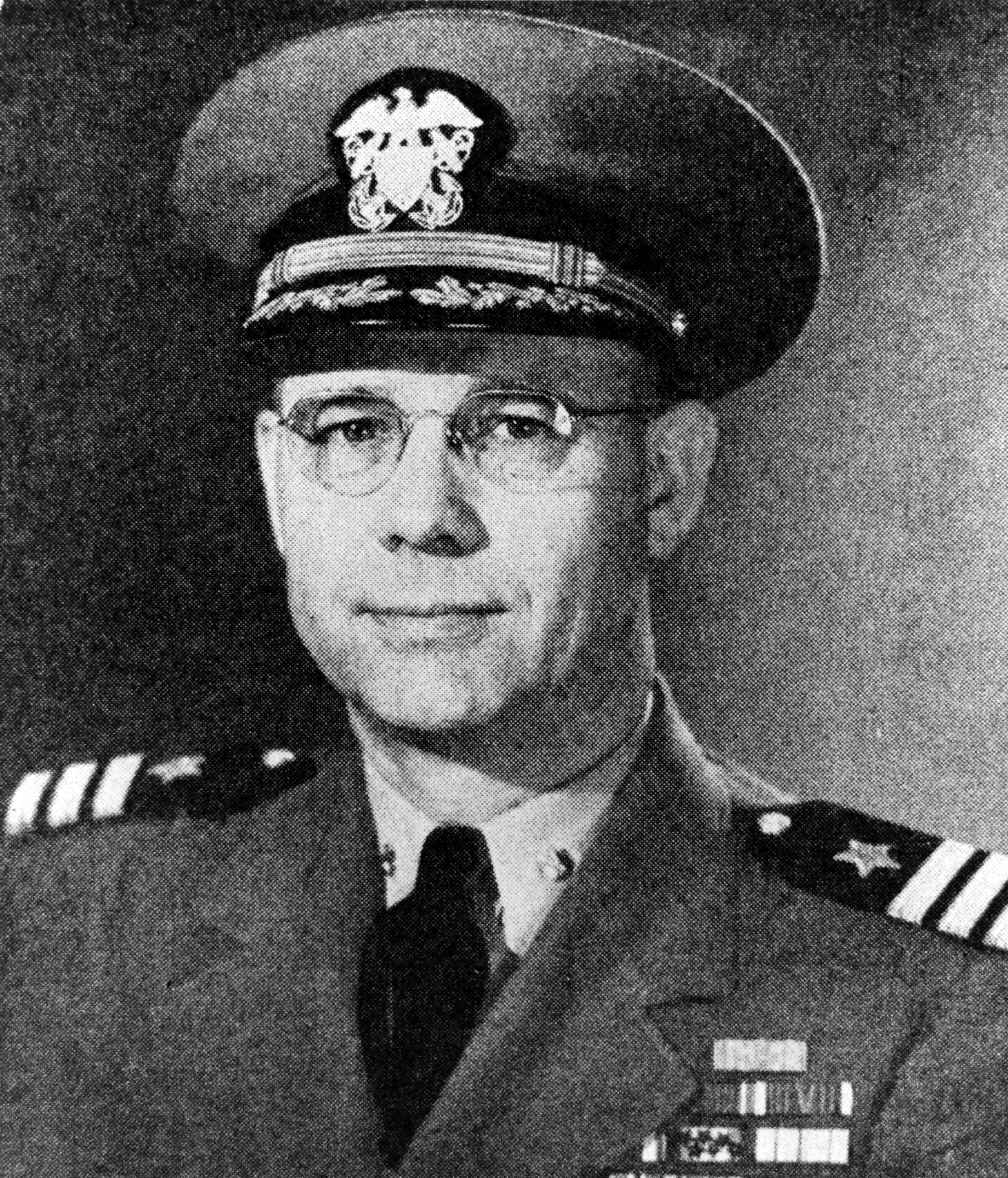 Commander John H. Balch, USNR In 1918, he was awarded the Medal of Honor for heroism in action at Vierzy, France on 19 July 1918 and at Somme-Py, France on 5 October 1918. He served with the Third Battalion, Sixth Regiment Marines.